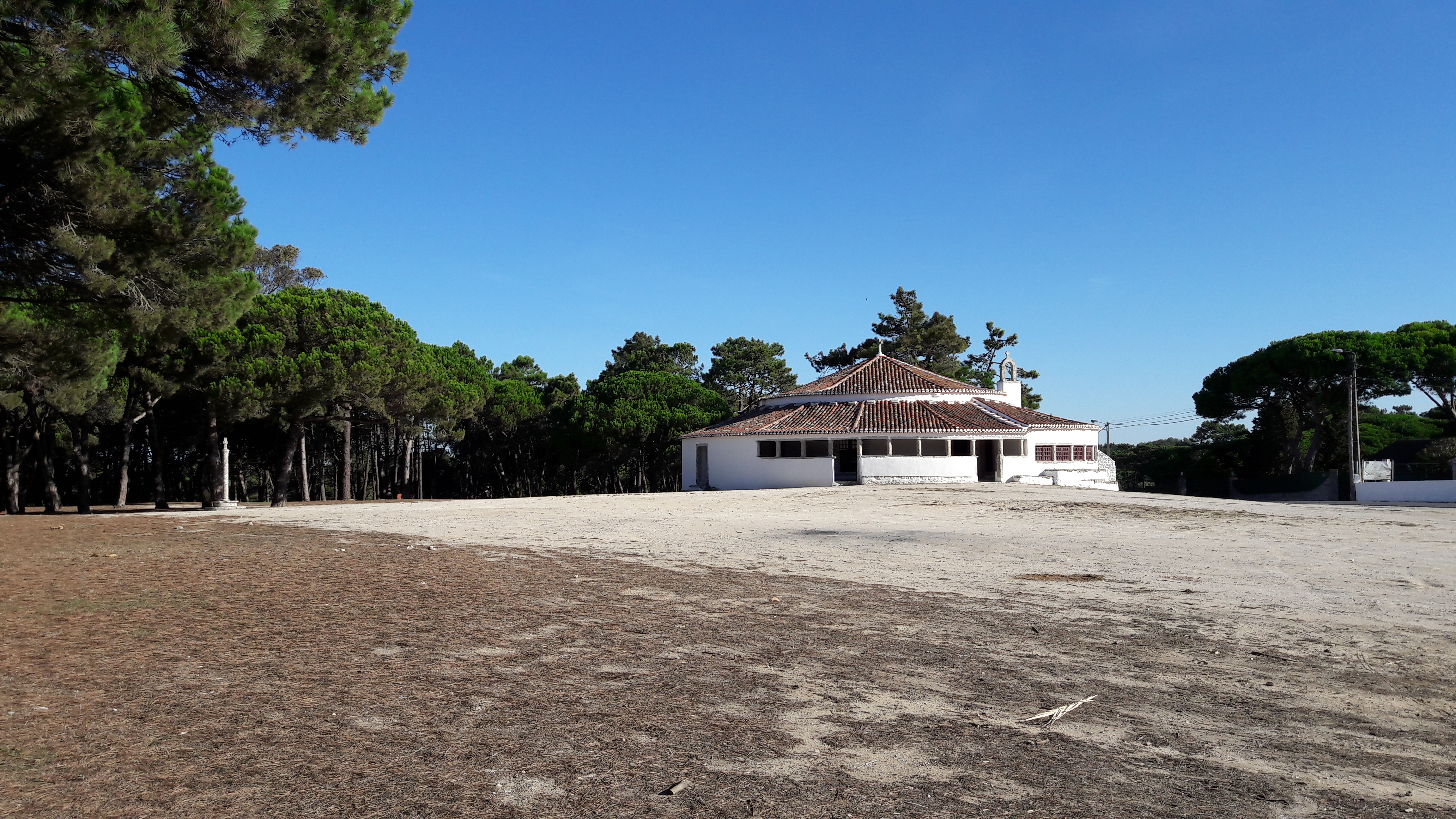 São Mamede Chapel at Janas, Sintra, Portugal